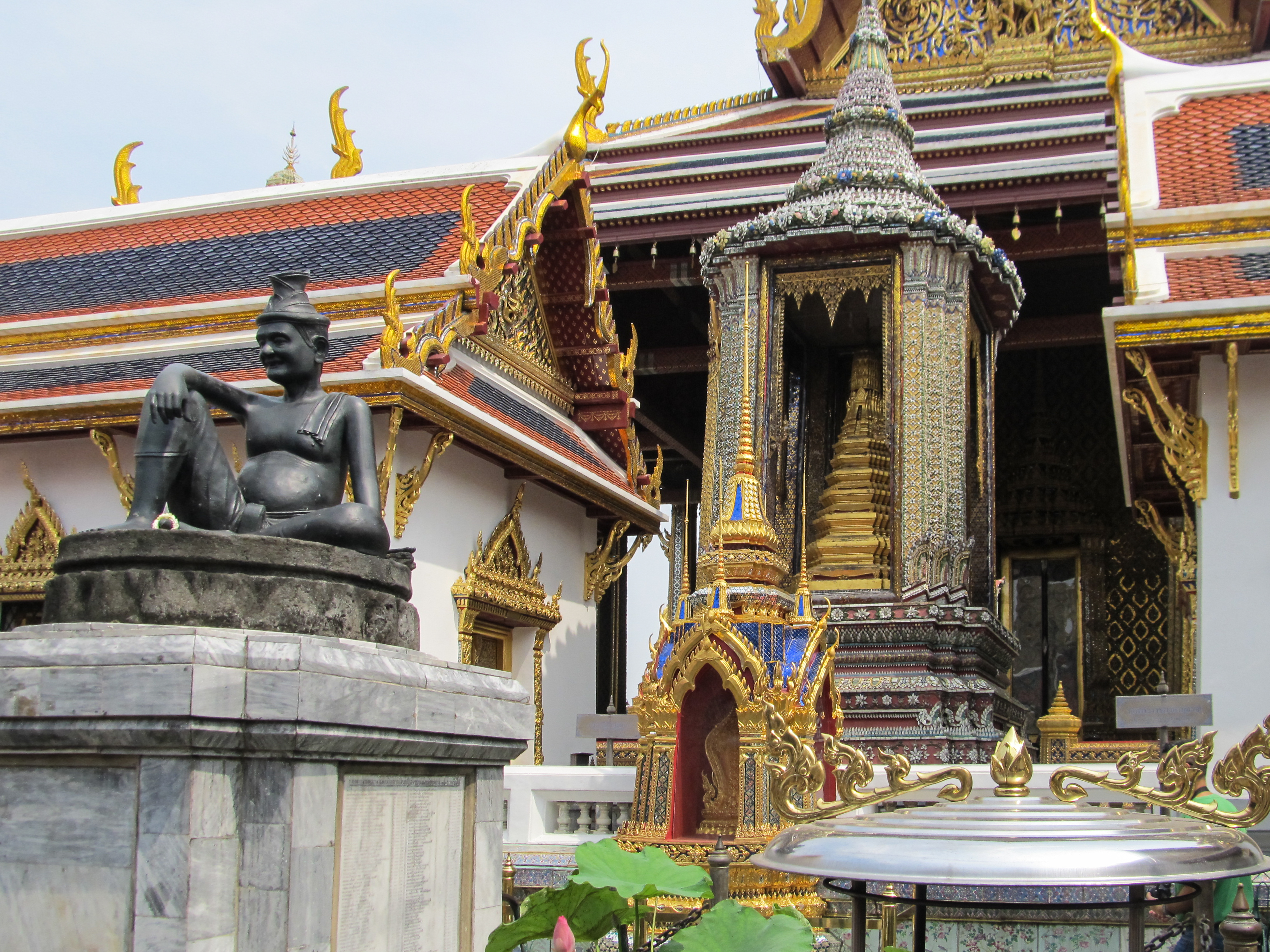 Bangkok